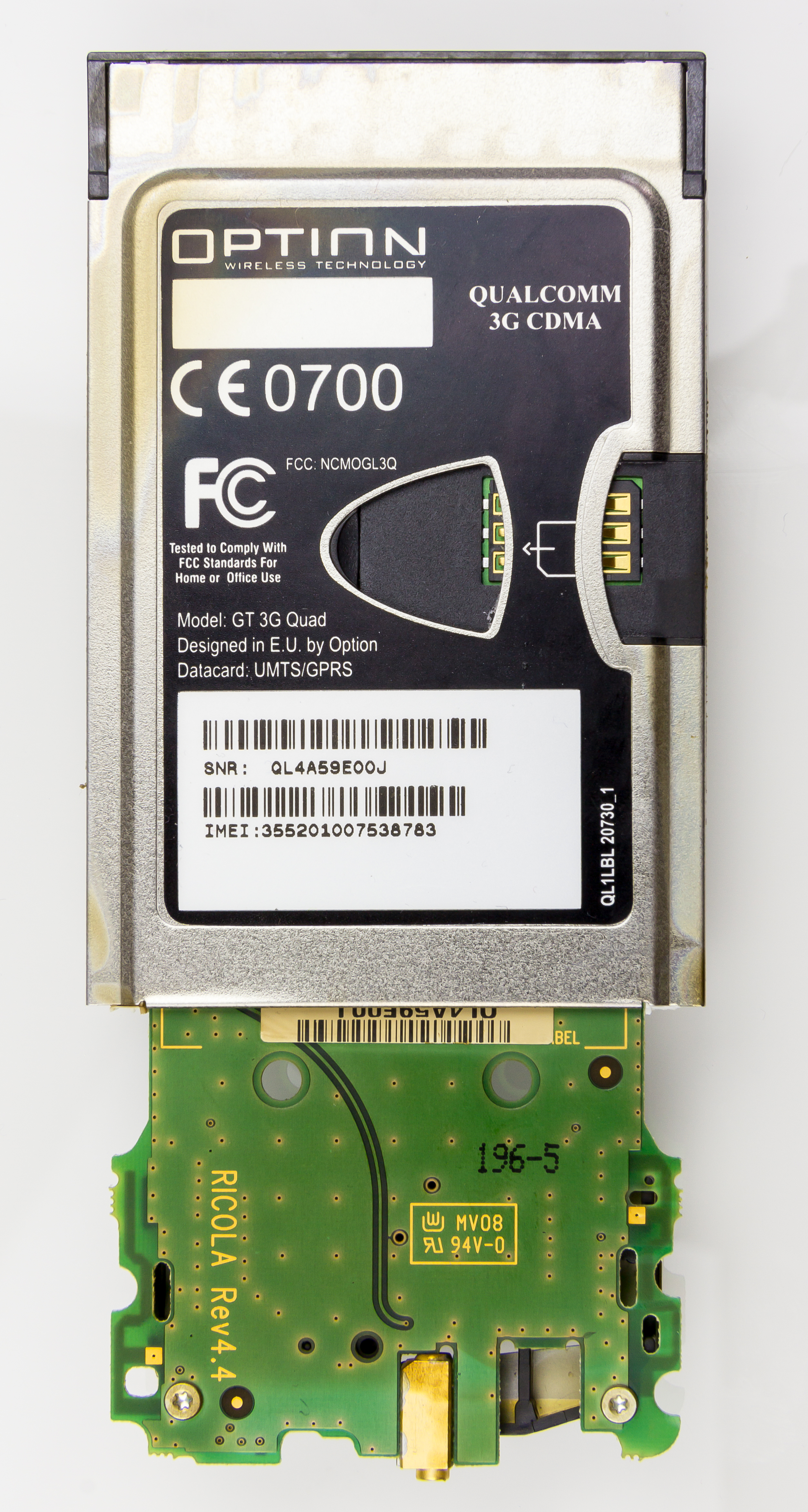 Option PC Card GT 3G Quad, part of UMTS Router Surf@home II, o2